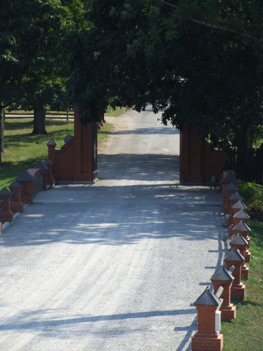 Entry to the world of Munchausen at Dunte, Latvia